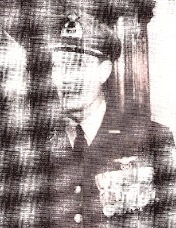 D.L. Asjes